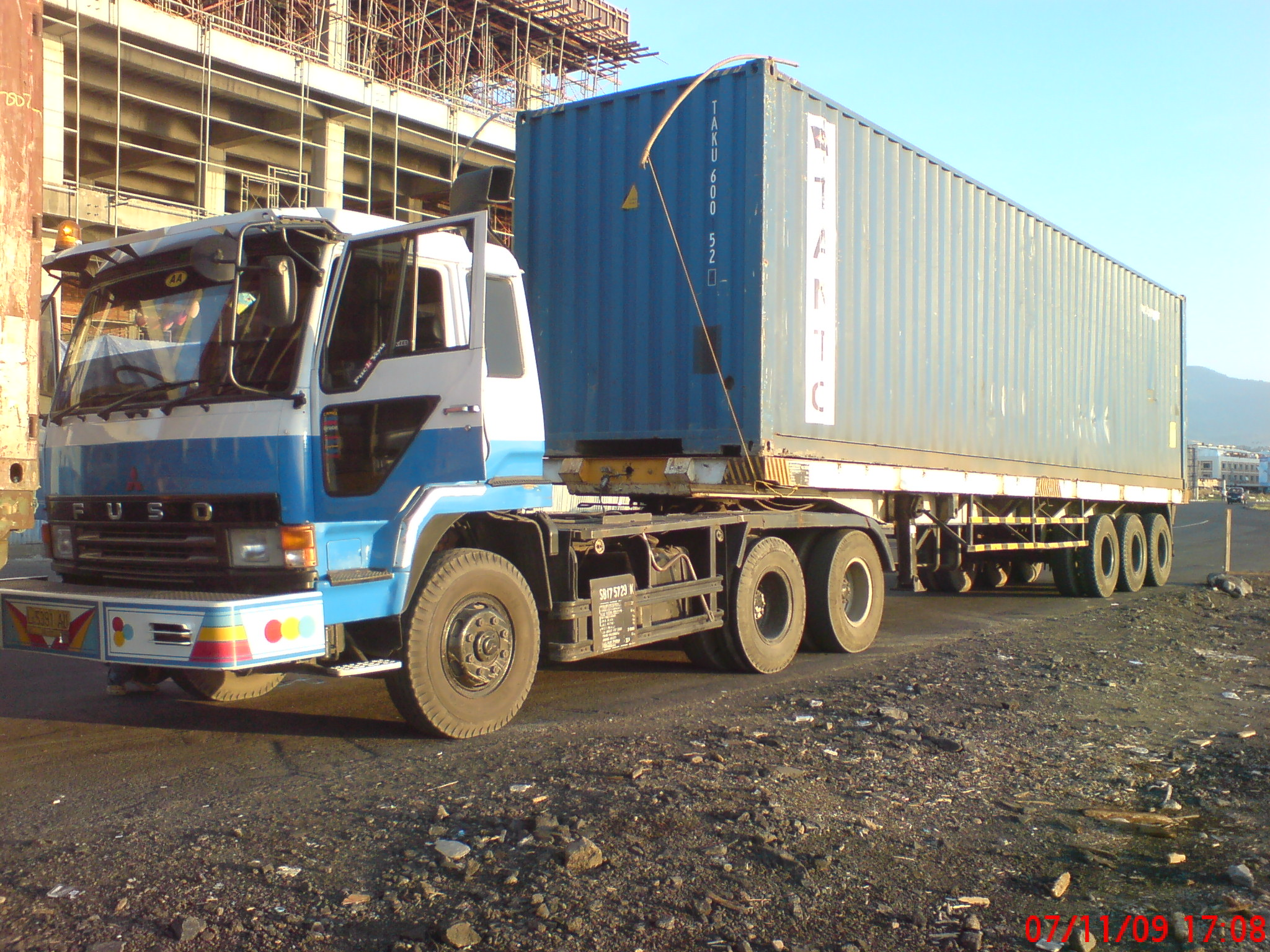 The Great 1985 - 1990 model modified front grill